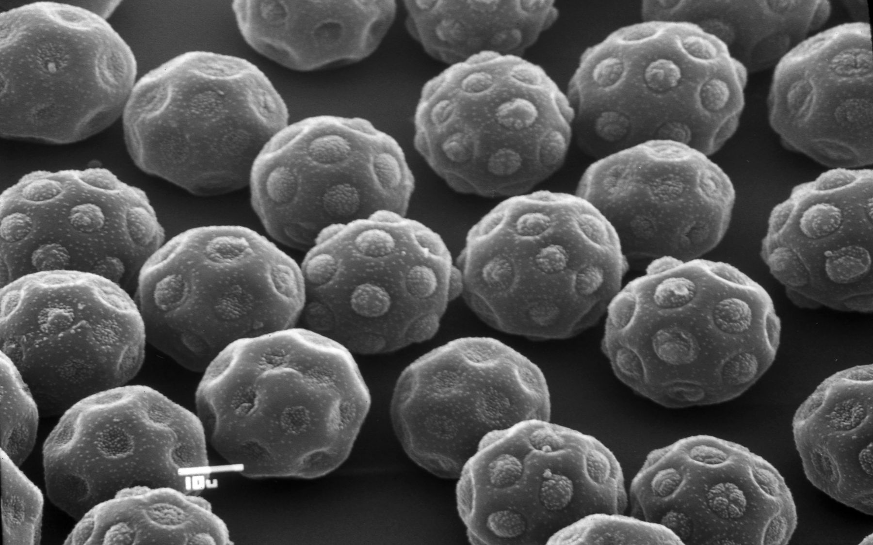 Pollen of Halothamnus glaucus ssp. tianschanicus, electron microscopic photo. Pollen from a Herbarium specimen collected in Kirghistan by Botbaeva No. 8 (Herbarium LE, KAS)